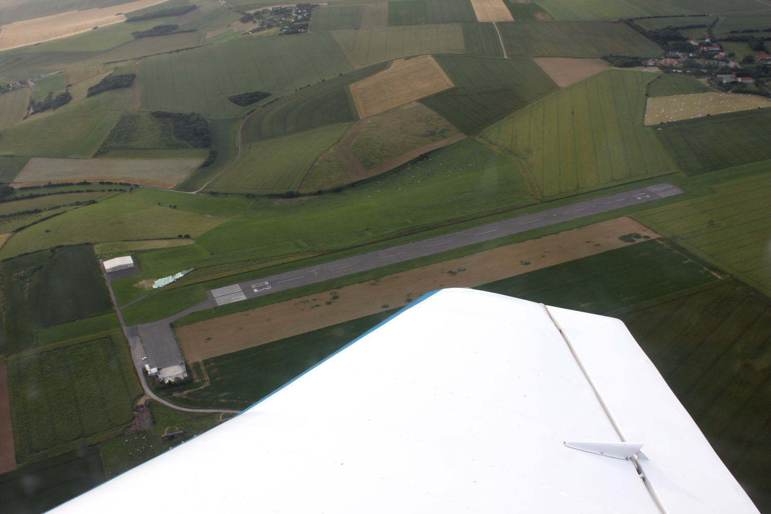 Over Saint Inglevert Airfield in a Robin DR400